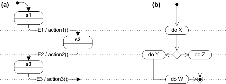 State diagram versus flowchart